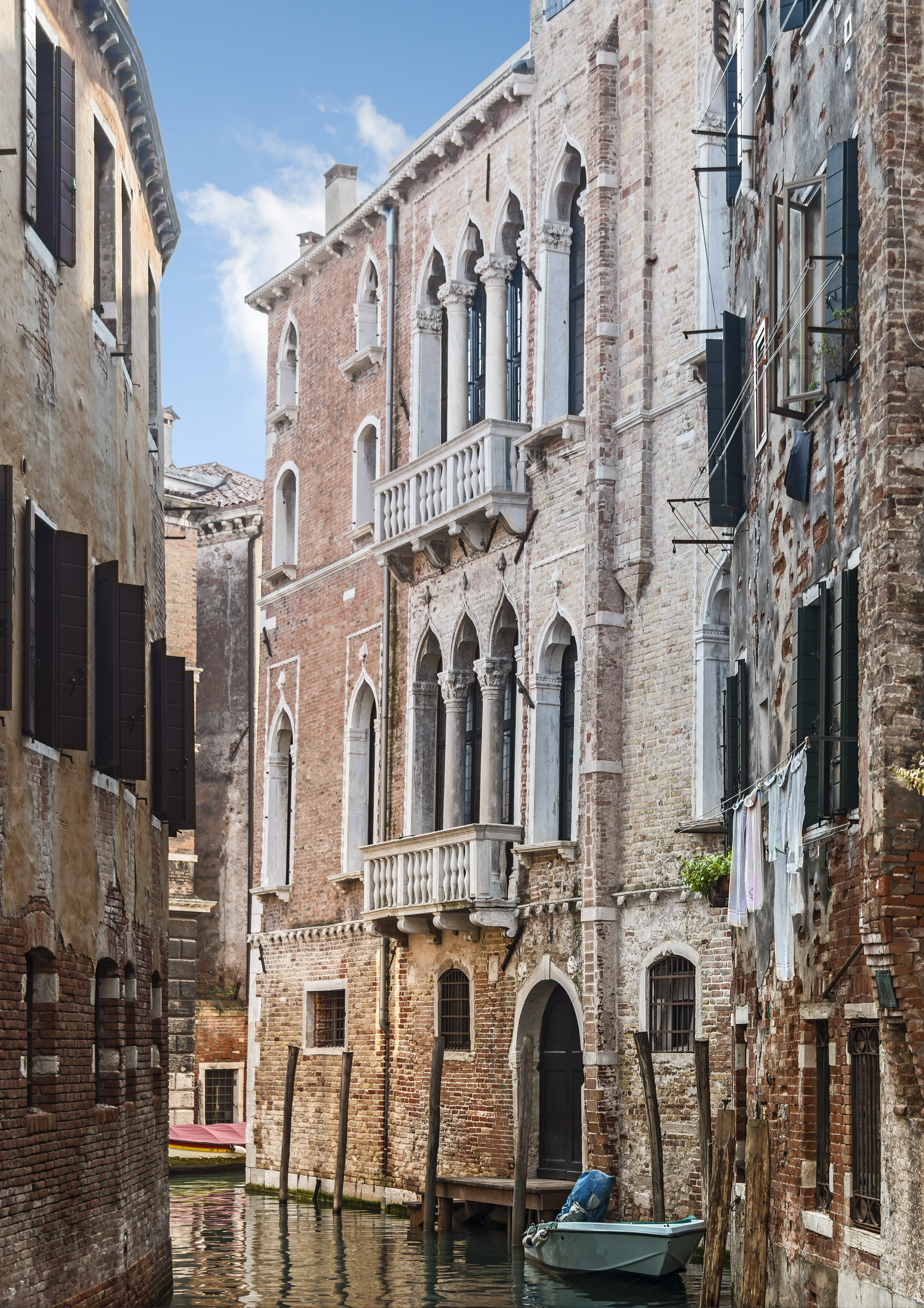 Place Soranzo Van Axel, in Venice, facade on Rio de Ca'Widmann.